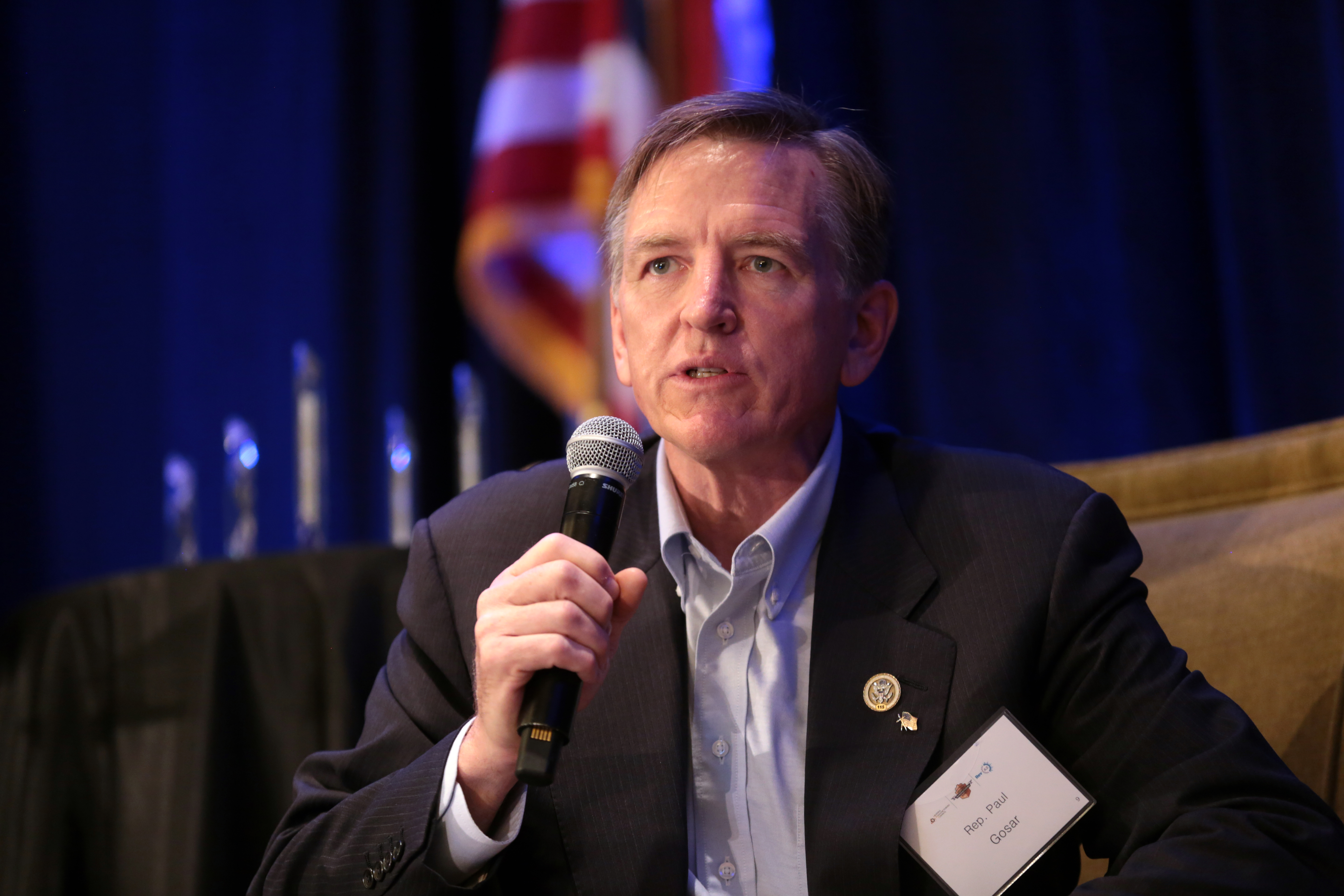 U.S. Congressman Paul Gosar speaking with attendees at the 2018 Arizona Manufacturing Summit hosted by the Arizona Manufacturing Council and the Arizona Chamber of Commerce & Industry at the Renaissance Downtown Hotel in Phoenix, Arizona.